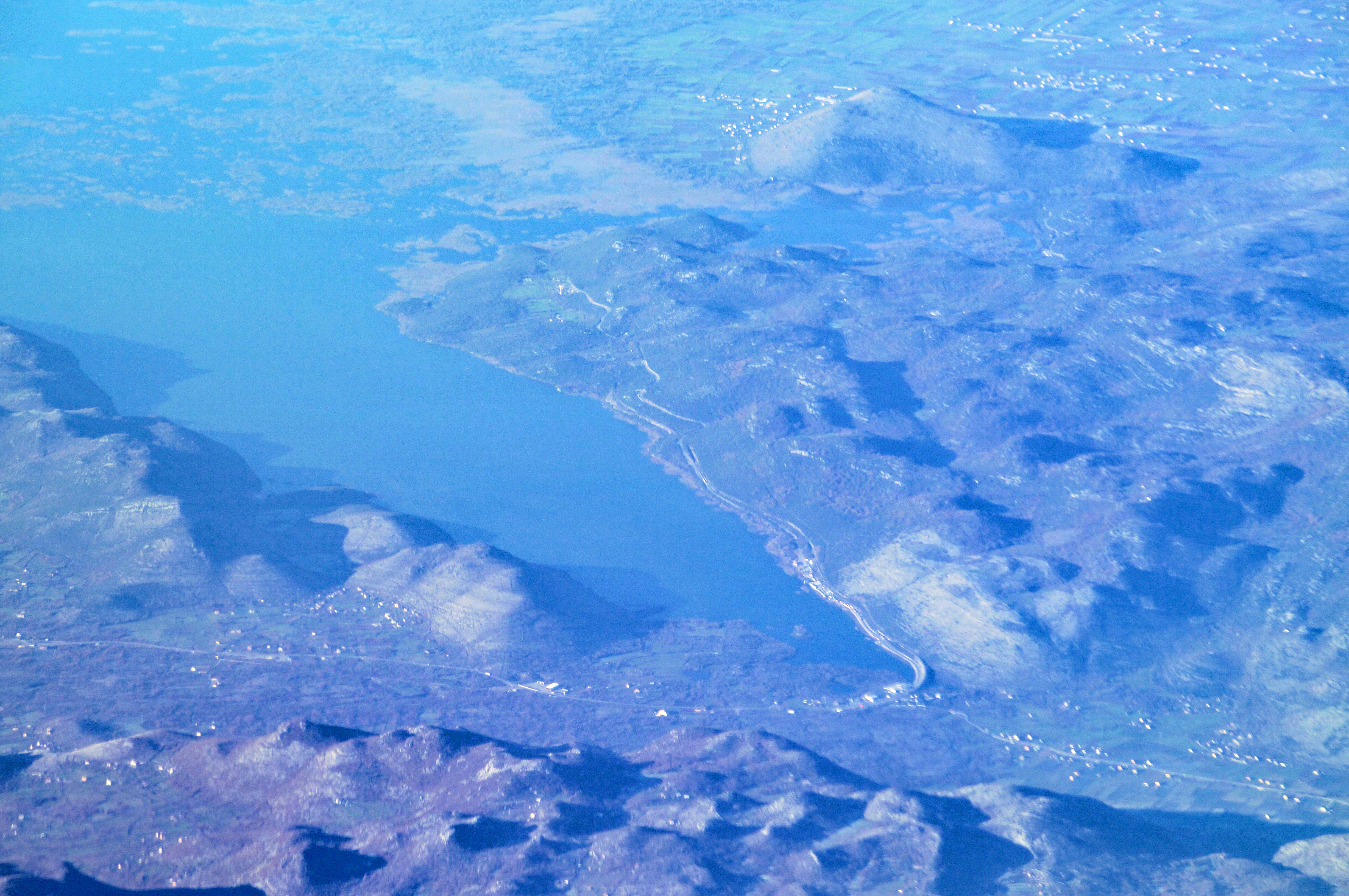 Lake Hoti and Han i Hotit